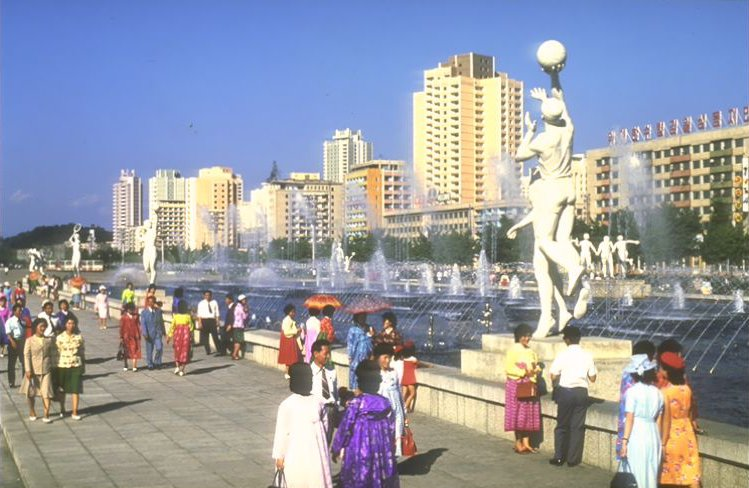 Fountains and statues, in Pyongyang park.